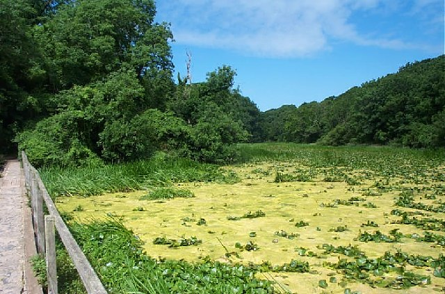 Bosherton Lily Ponds. In June this three mile stretch of water is covered with white lilies.